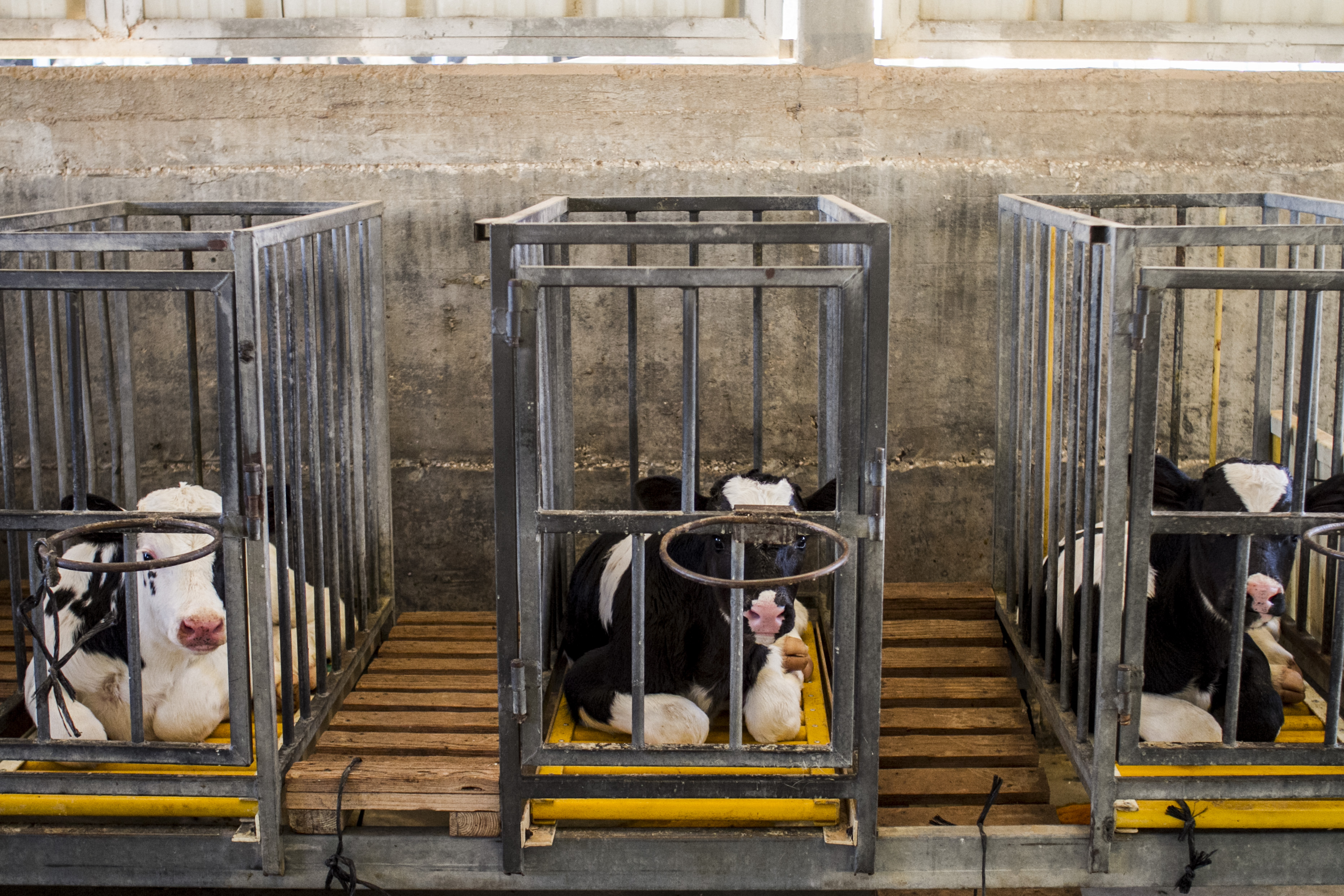 calves in a cage